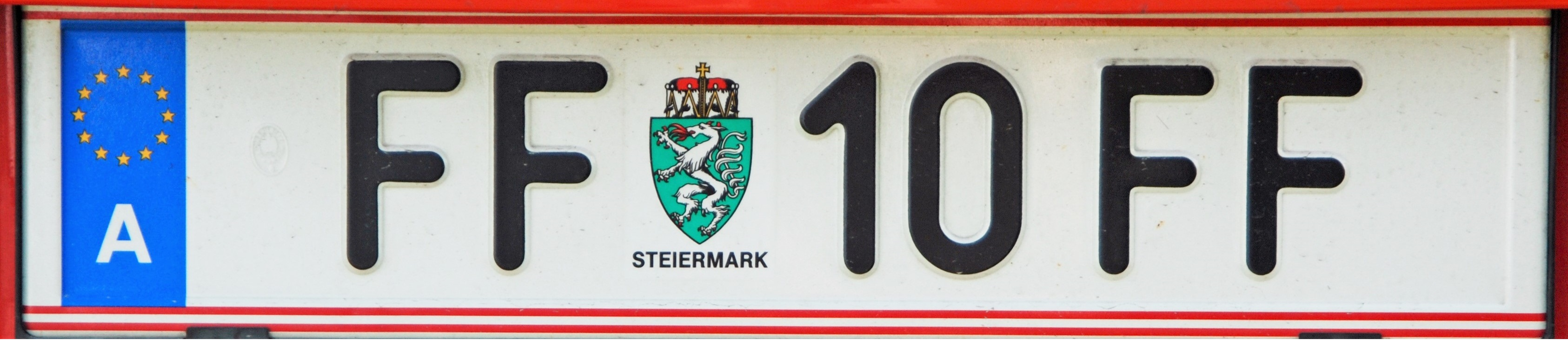 License Plates Fürstenfeld